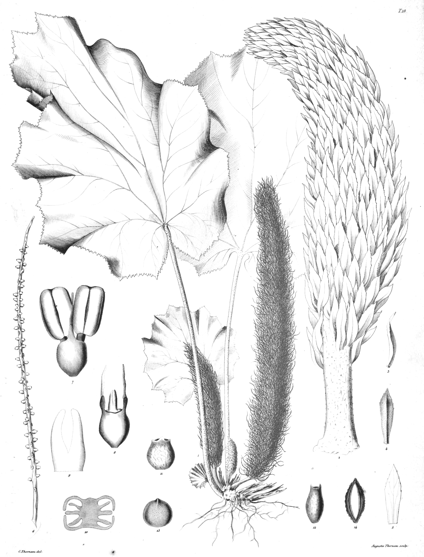 Plate from book